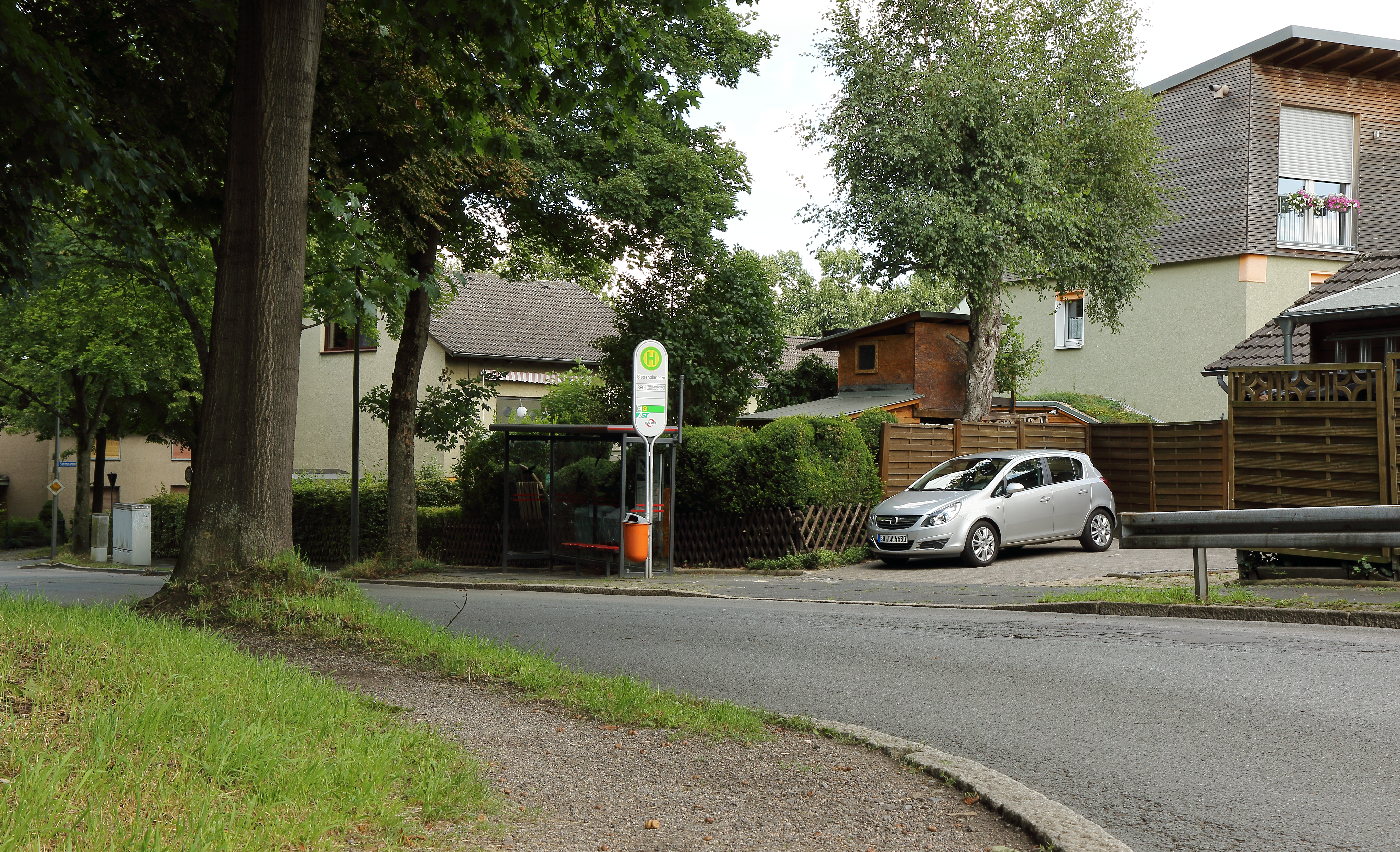 bus stop "Siebenplaneten" (once coal-mine)